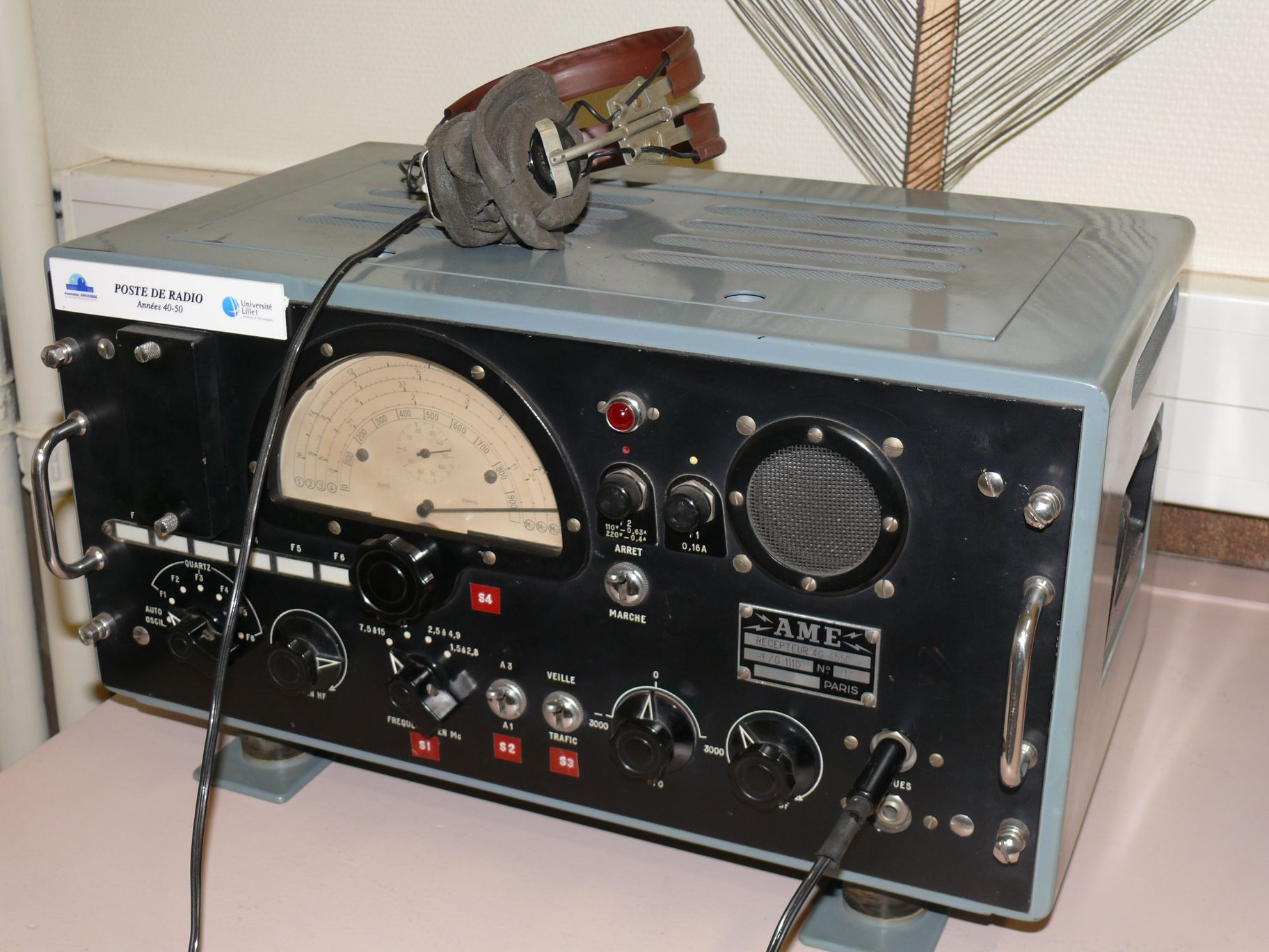 Radio receiver of years 1940-1950 at Lille observatory (Nord, France).